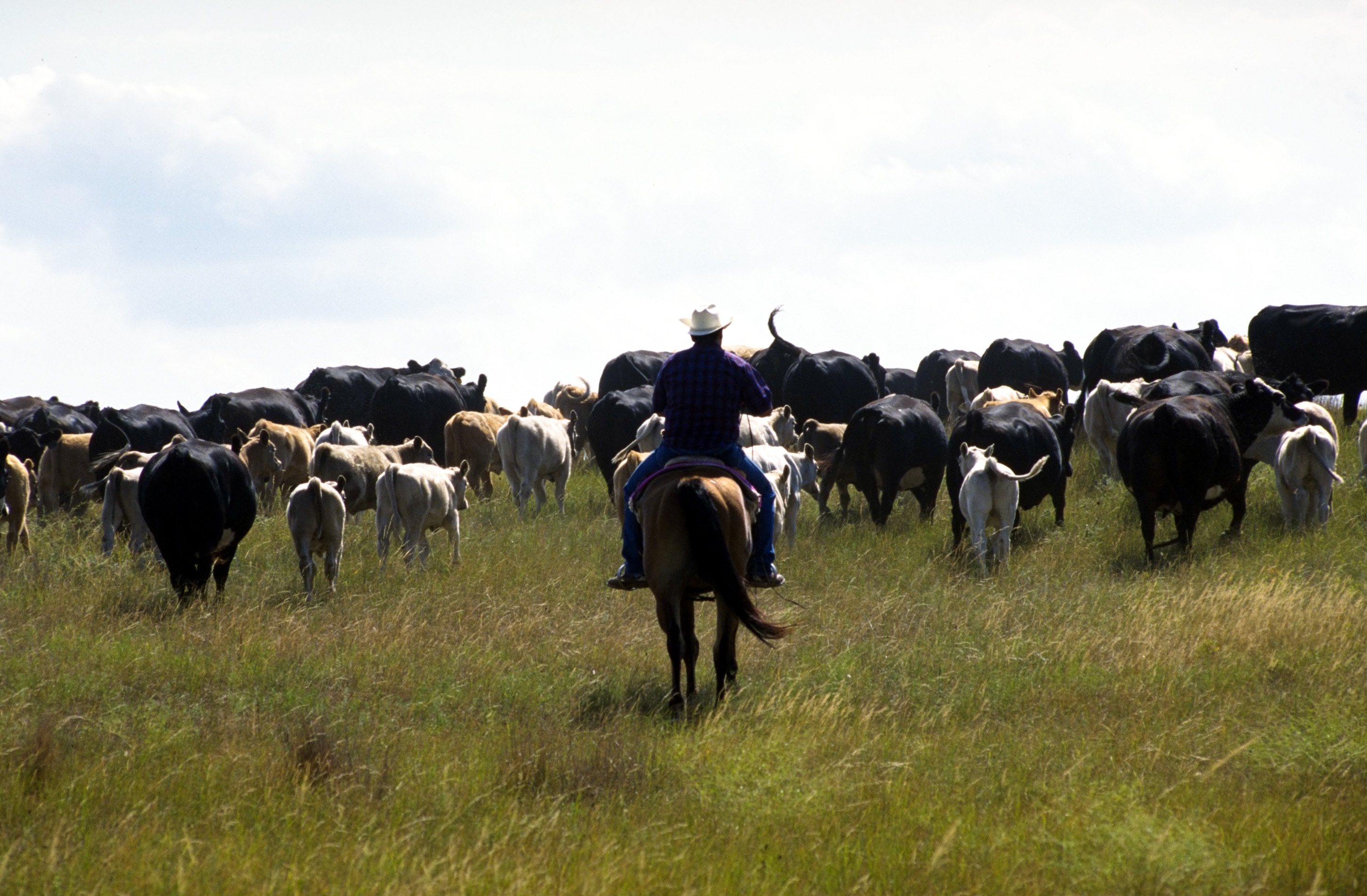 Rancher Moving Cattle